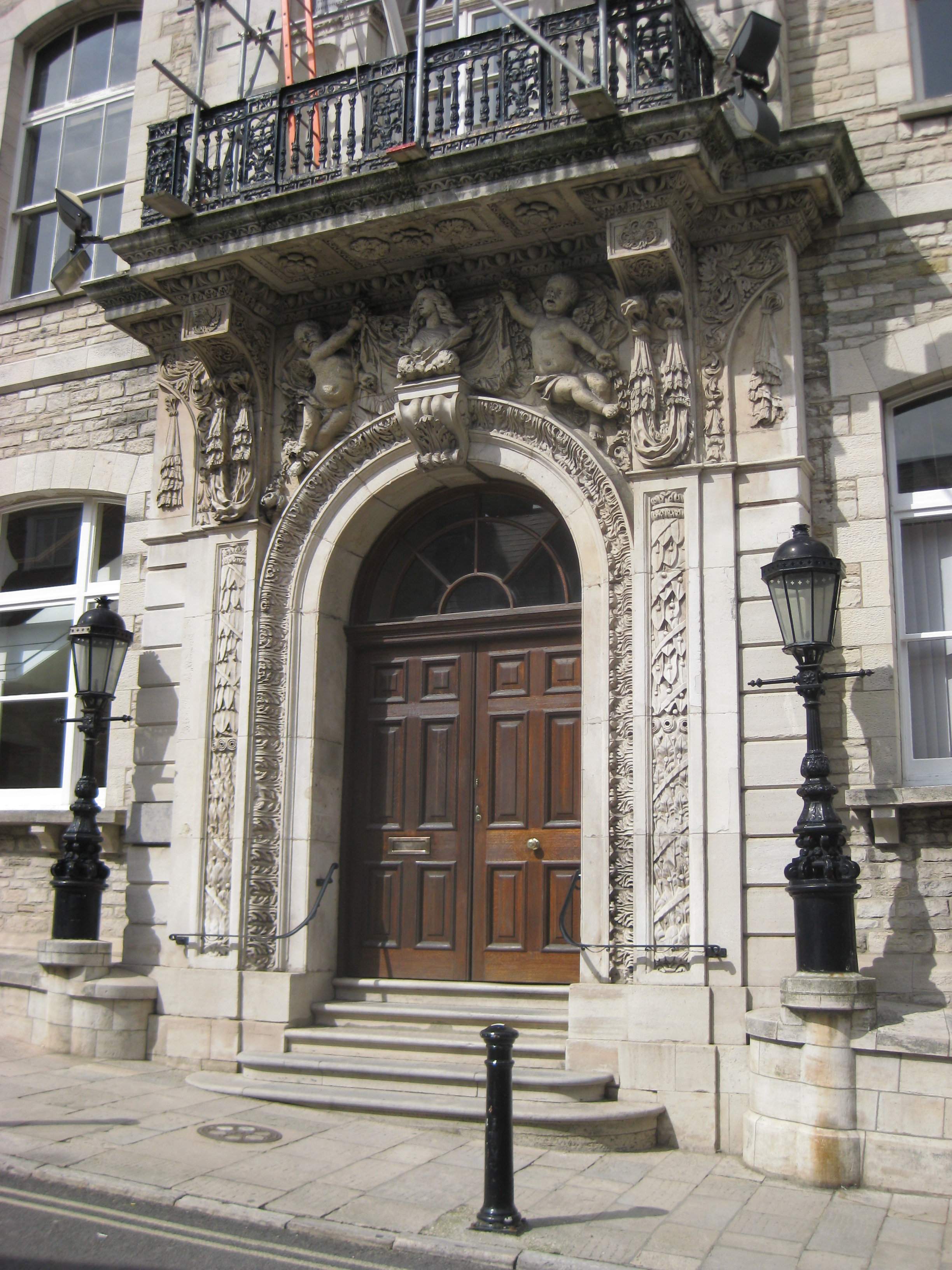 Swanage Town Hall, main entrance